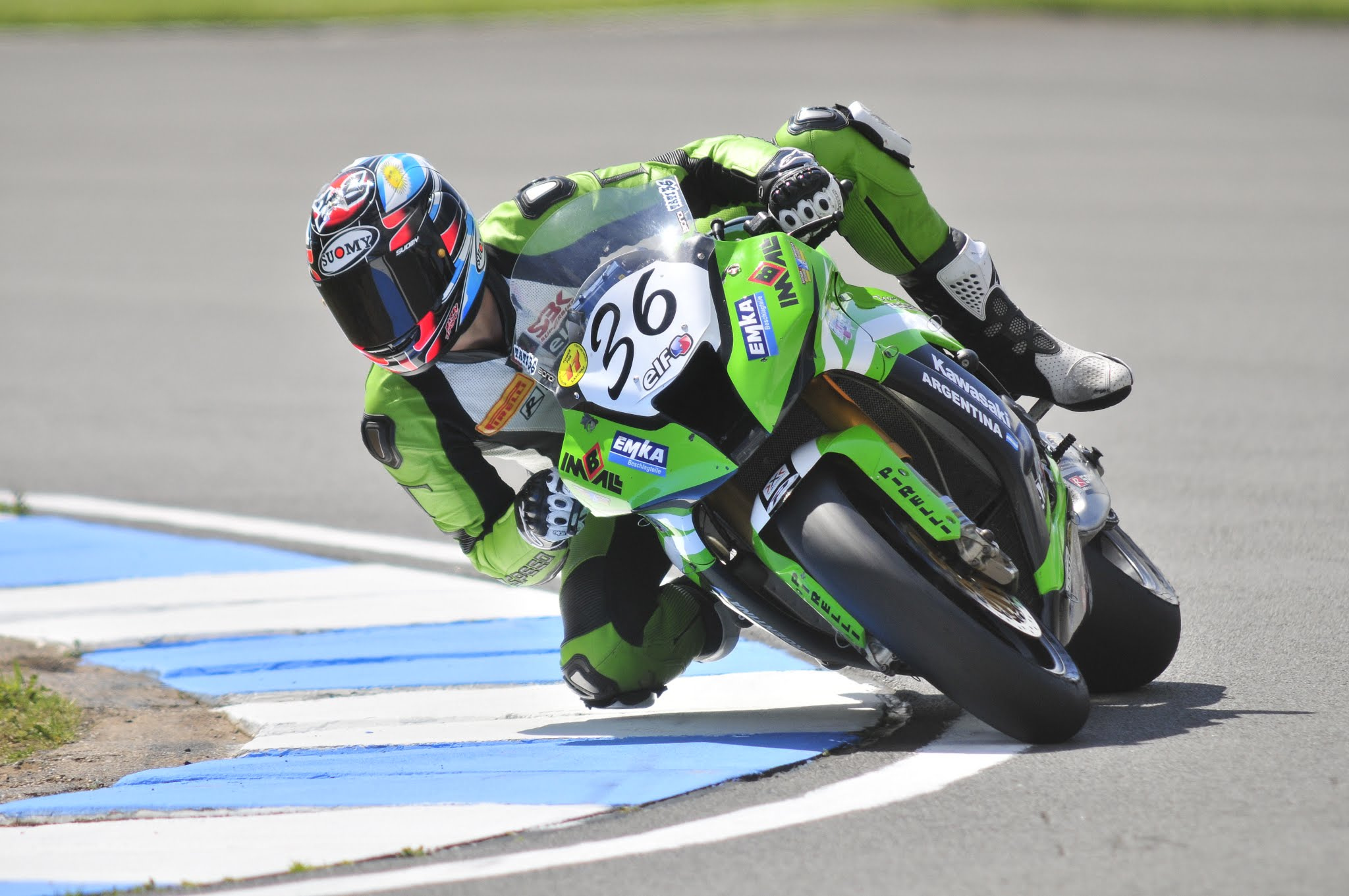 Leandro Mercado - 2012 Superbike Donington Park